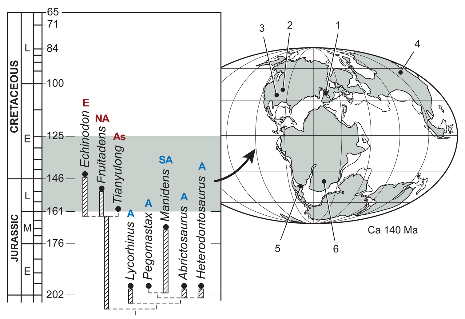 Biogeographic distribution in time for heterodontosaurids included in the phylogenetic analysis. Localities for included taxa are plotted on an Early Cretaceous (Berriasian-Valanginian) paleogeographic map (Smith et al. 1994) and recent time scale (Gradstein and Ogg 2009). Abbreviations for taxon localities and biogeographic areas: 1 Echinodon 2 Fruitadens 3 Kayenta heterodontosaurid 4 Tianyulong 5 Manidens 6 Abrictosaurus, Lycorhinus, Heterodontosaurus, Pegomastax A Africa As Asia E Europe NA North America SA South America.